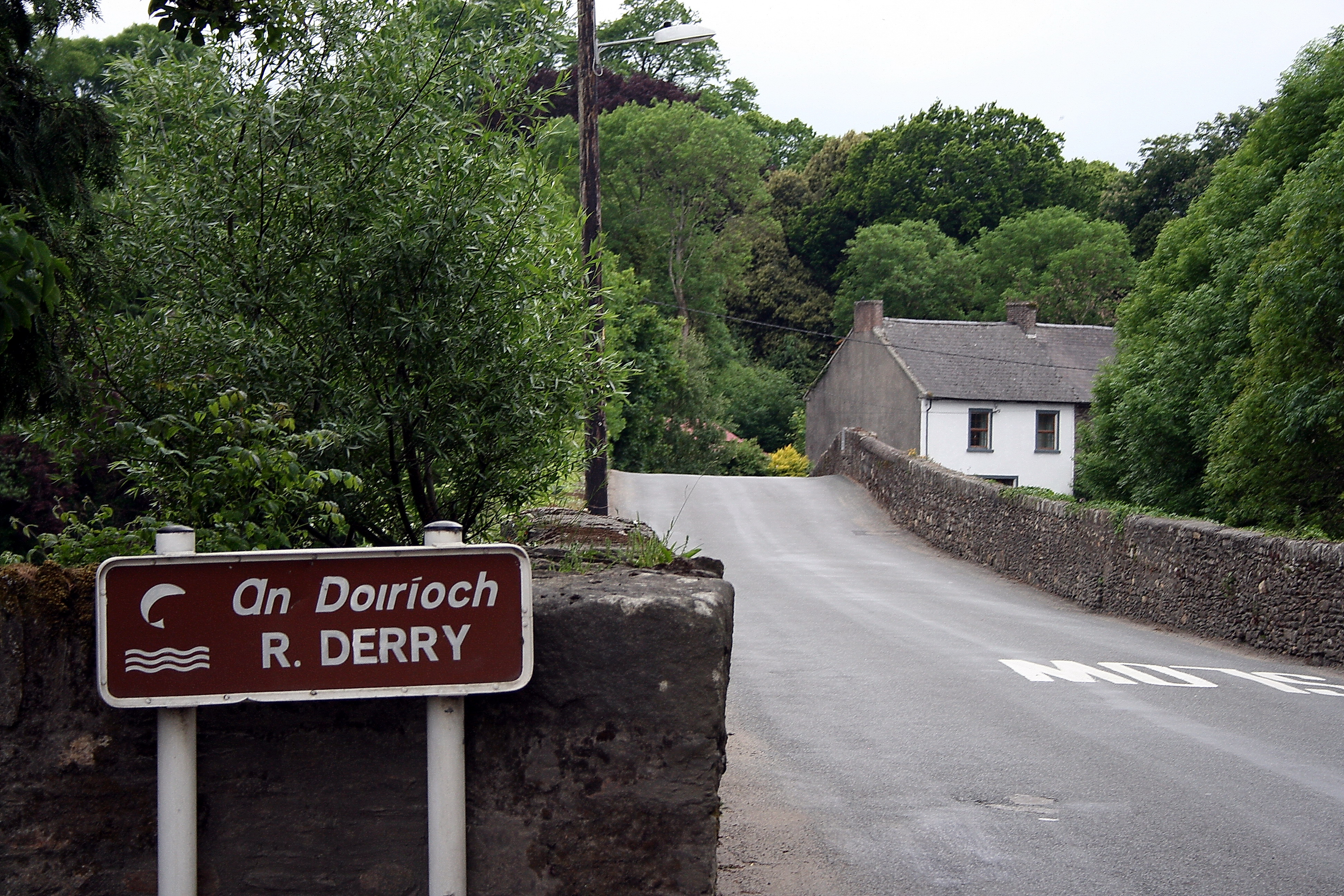 East bank of the River Derry; Watch House Village, County Wexford, Ireland. Across the bridge the building is in Clonegal, County Carlow